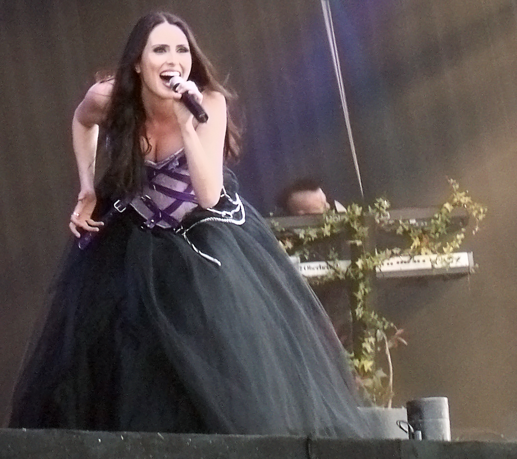 Sharon den Adel, lead female vocals of Gothic metal band Within Temptation